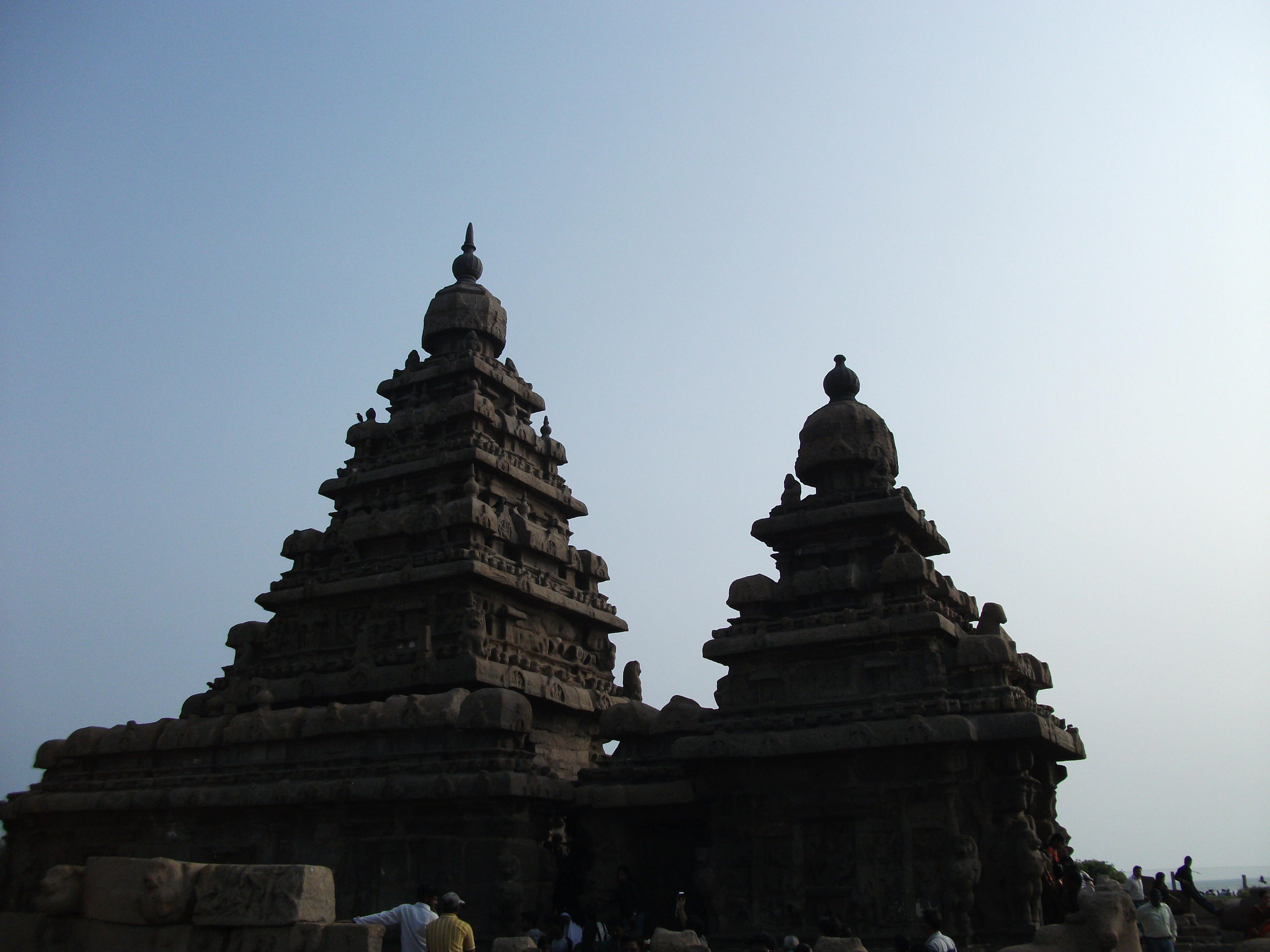 The world famous 'Shore Temple' located in the shores of Bay of Bengal.